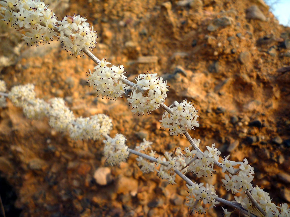 Asparagus albus in Cartagena (Spain)